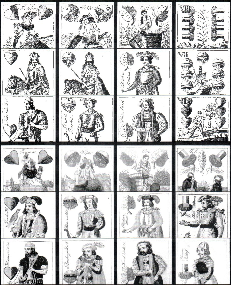 Around 1835 a new pattern emerged in Pest in Hungary, with Obers and Unters showing characters from Schiller`s Swiss history play "Wilhelm Tell". The mounted Kings were the traditional symbol of sovereignty in Hungary. The allegories of the seasons on the Deuce cards appear to have been based on a single figure pack designed by Matthäus Loder in Vienna in 1823 or 1824 and printed there by Uffenheimer in 1824. The first makers of the Hungarian double-figure pattern were probably Joseph Schneider and Ödön (Edmund) Chwalowsky, both of Pest. By about 1850, this pattern was being produced by other cardmakers in Hungary, e.g. K. Walbacher also in Pest and Antal Salamon of Kecskemét. In about 1860 it gave way to a version with rather different representations of the Seasons, and slightly different representation of the Obers and Unters . From about 1890 the Tell pattern generally replaced all the other German-suited cards used in Hungary (the Hungarian and Oedenburger pattern). Although the Obers and Unters represent heroes of Swiss history, cards of the Tell patterns have never been produced or used for games in Switzerland.